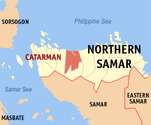 Map of Northern Samar showing the location of Catarman